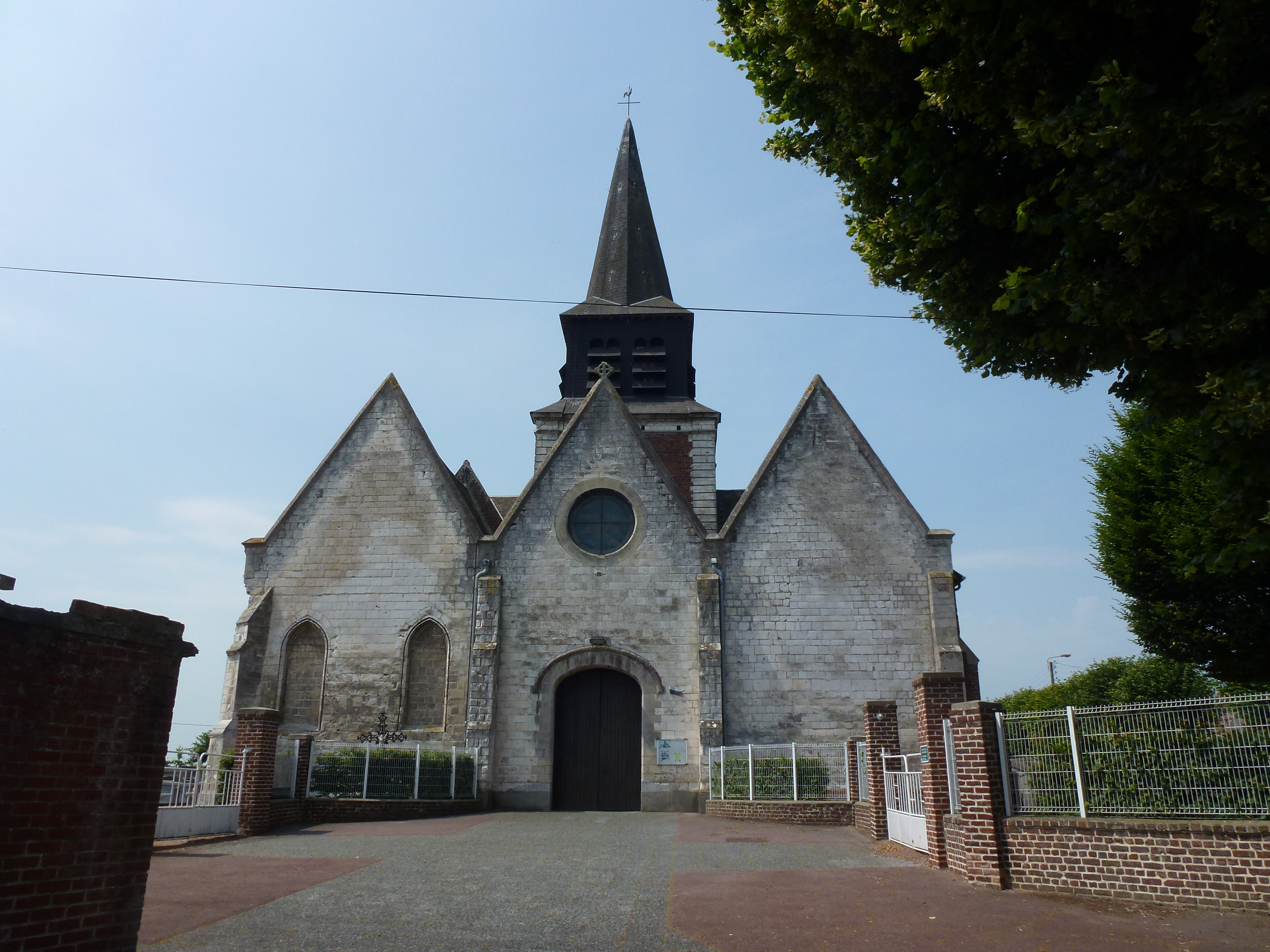 Boëseghem (Nord, Fr) église